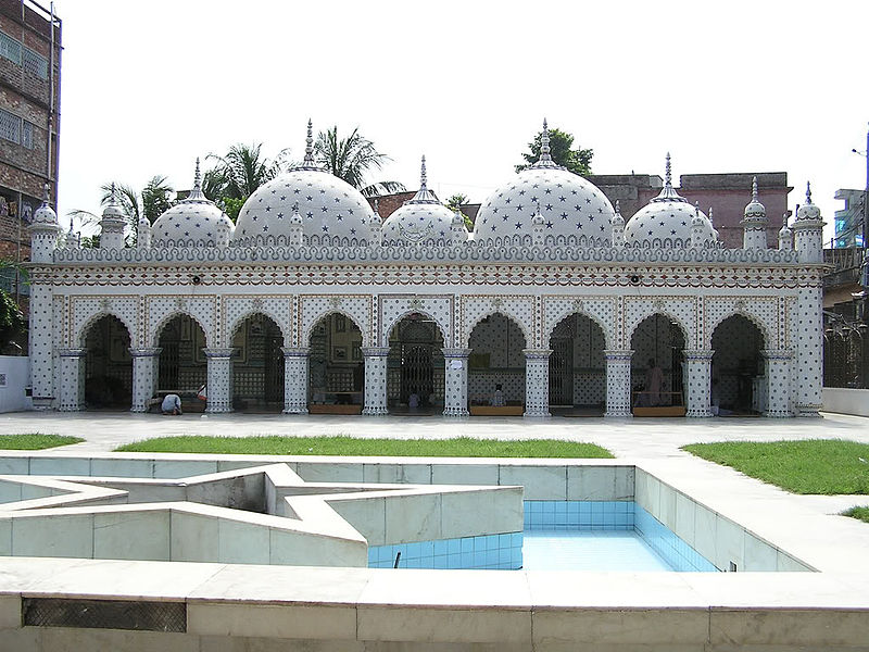 Taara Masjid, Armanitola, Dhaka